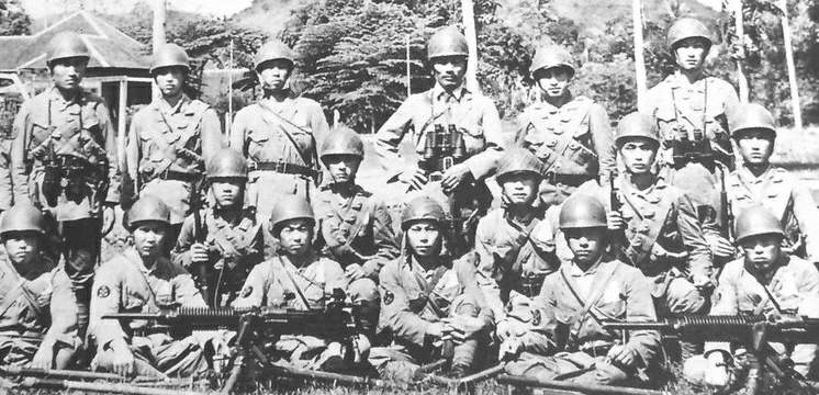 WW2 IJN SNLF paratroopers in a group photo